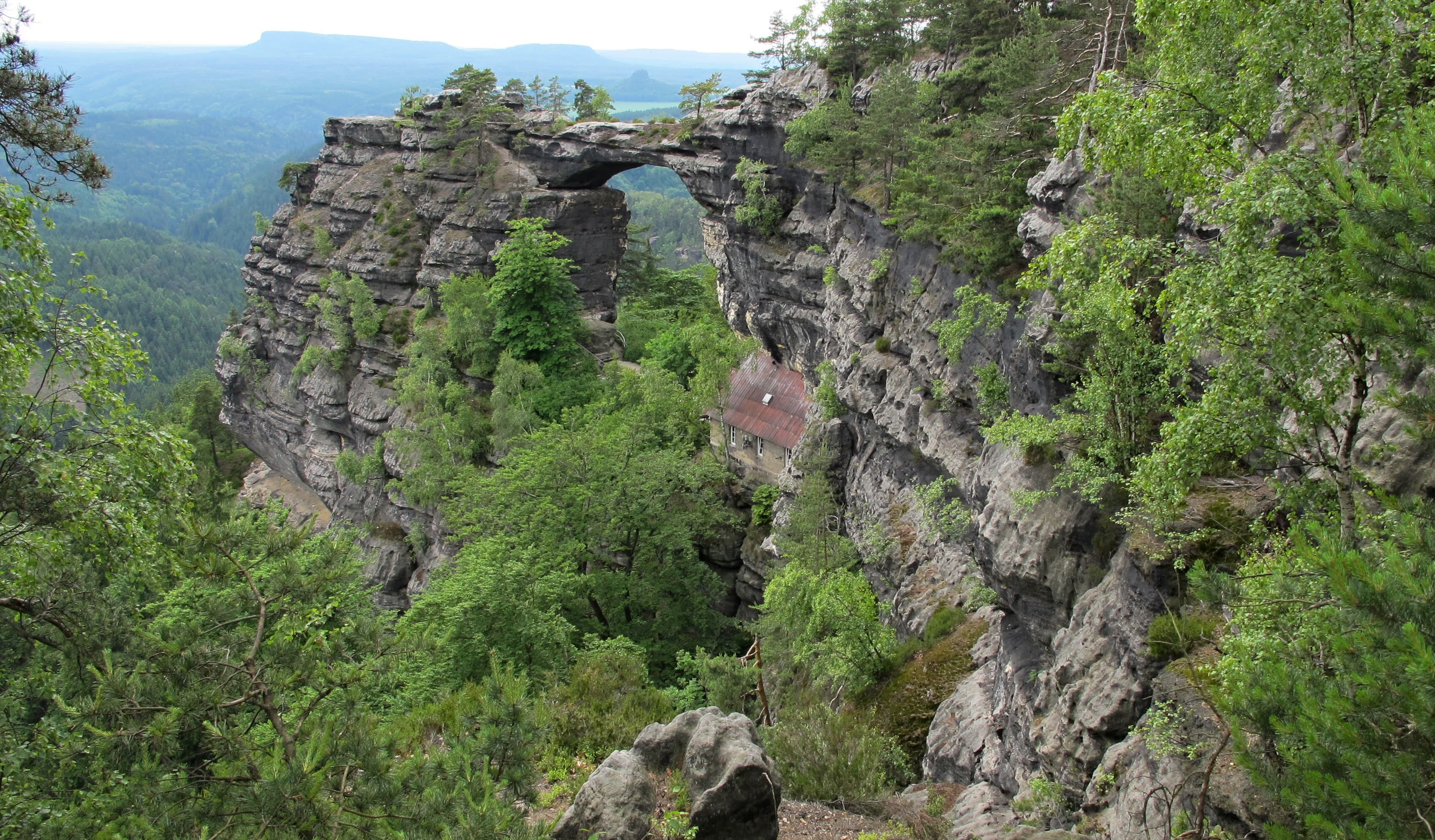 Pravčická brána (Prebischtor) in a part of national park Bohemian Switzerland and national natural monument, Děčín District